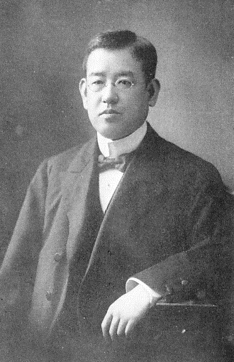 Kunimune Date